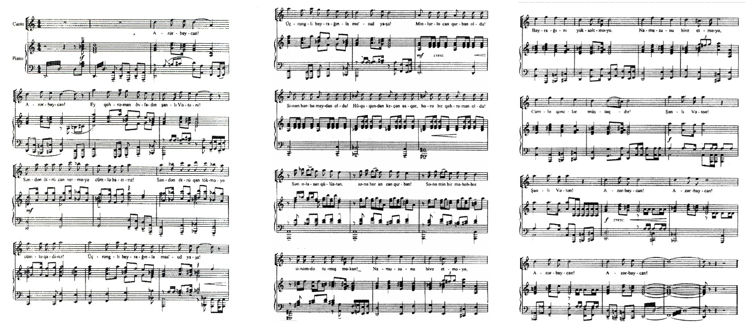 Full sheet music of the state anthem of Azerbaijan